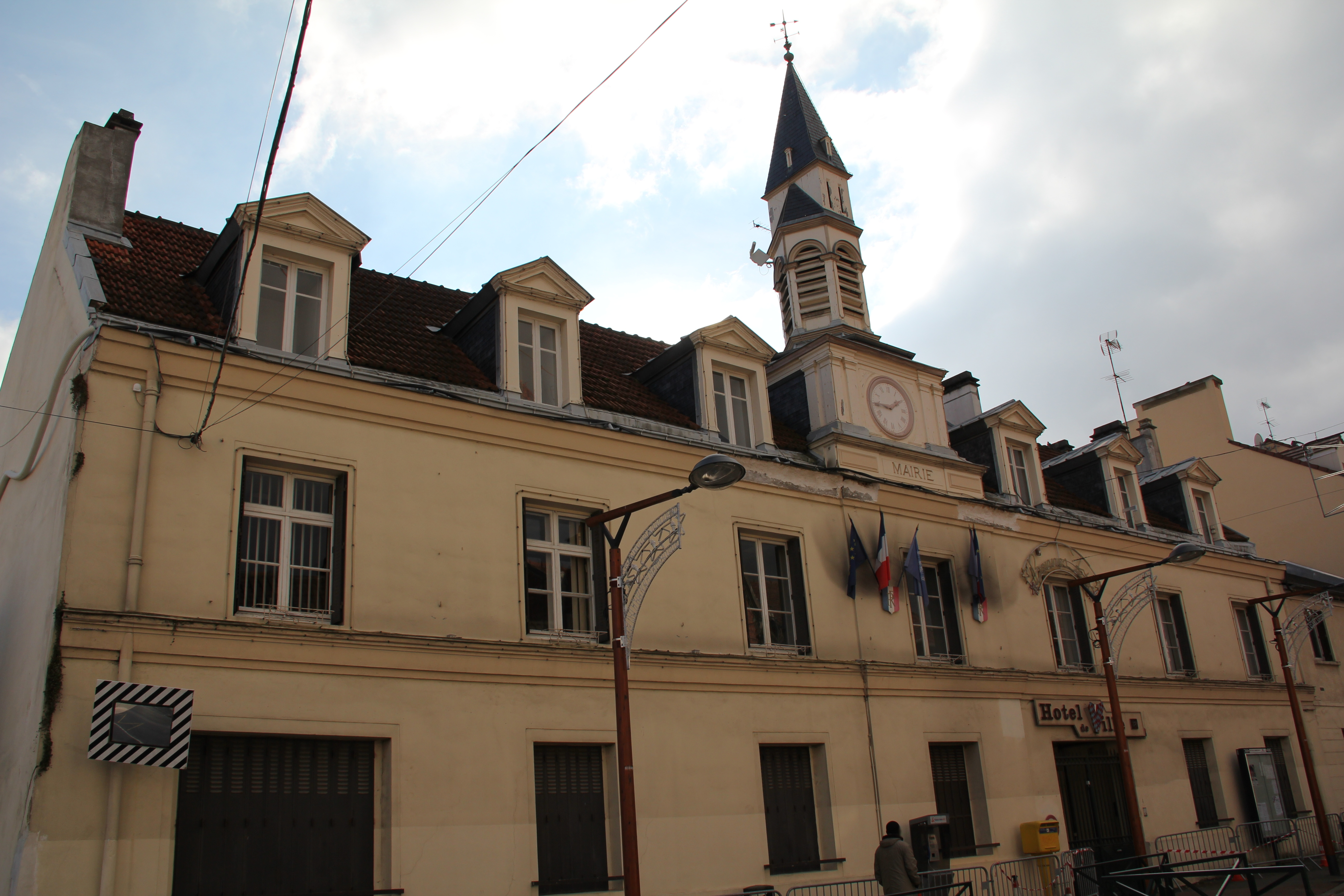 The town hall of Villeparisis, Seine-et-Marne, France.